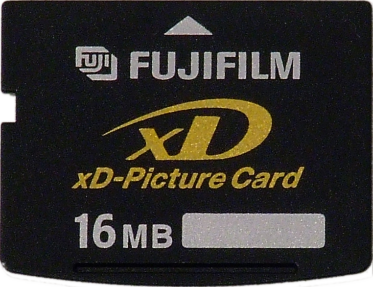 xD flash memory card, 16M.